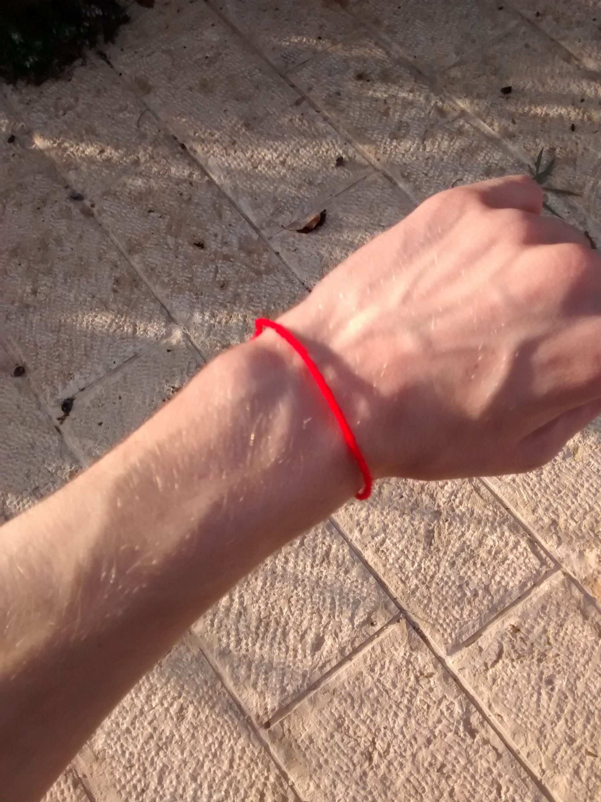 A red string (Kabbalah), given out near the Western Wall.